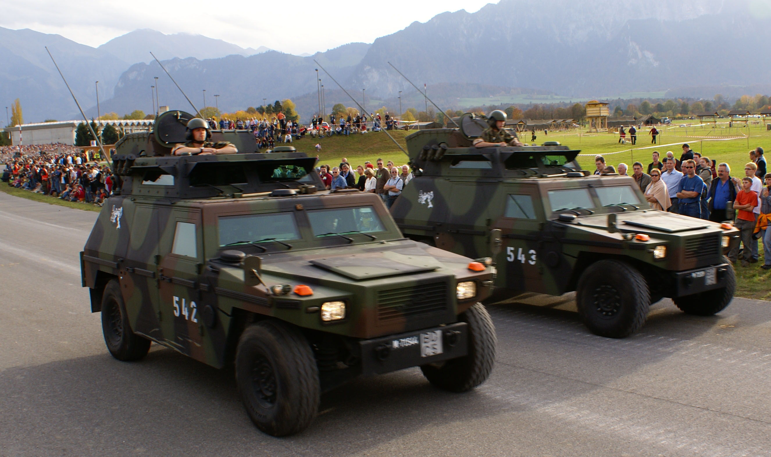 Swiss Army. MOWAG Eagle III artillery observer vehicle. Participating in the "Steel Parade" of the 2006 Army Days, Thun.